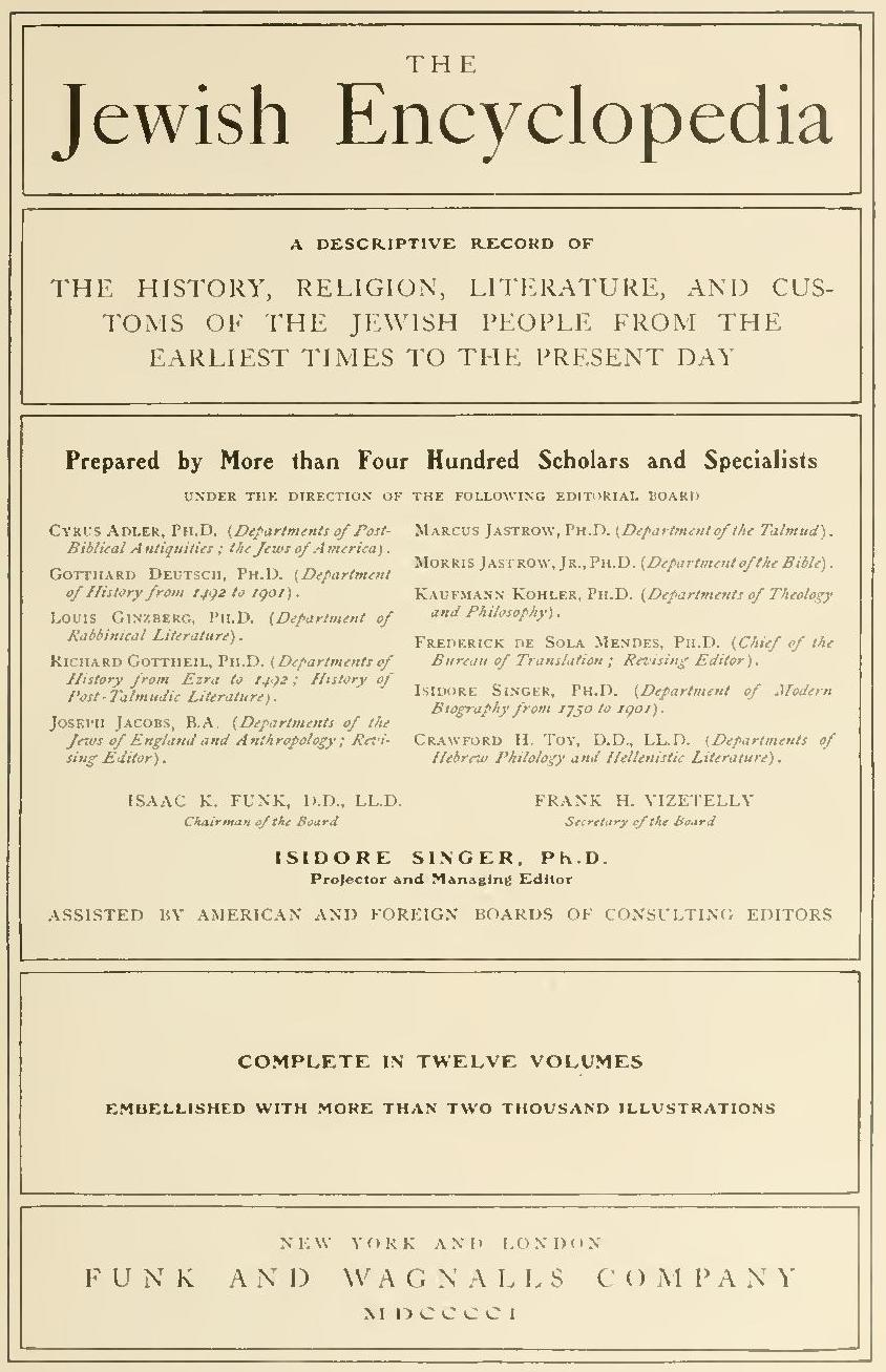 Cover page from the first volume of the Jewish Encyclopedia published by Funk & Wagnalls between 1901 and 1906.